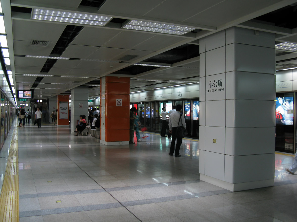 Line 1 Platform of Che Gong Miao Station, Shenzhen Metro, view towards Xiang Mi Hu Station